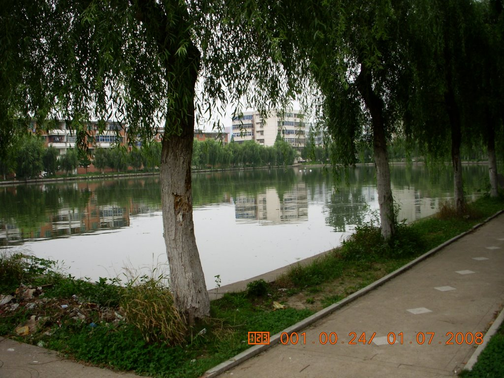 bi lake in Huangchuan teaching school